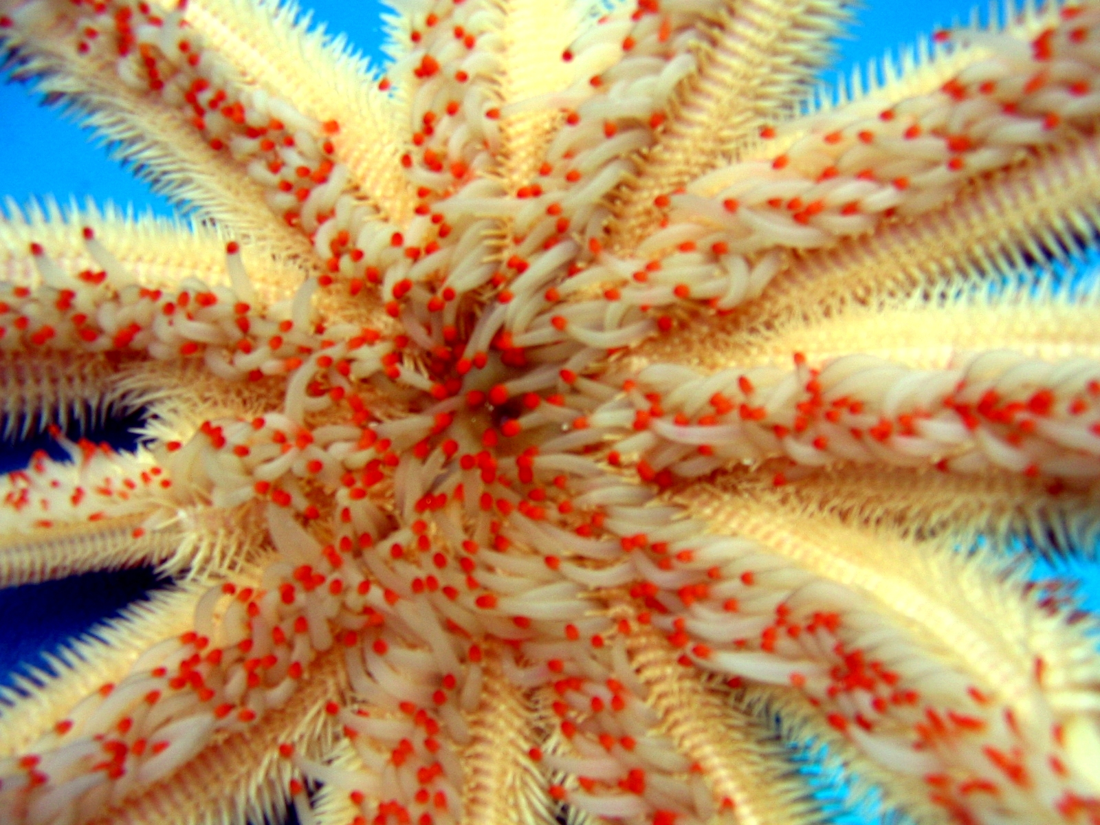 Mouth of Magnificent Star starfish (Luidia magnifica) - note regenerating legs. Tube feet are red-tipped. This starfish species has either ten or eleven arms. They live buried under the sandregenerating legs Image ID: reef0675, NOAA's Coral Kingdom Collection Location: Northwest Hawaiian Islands